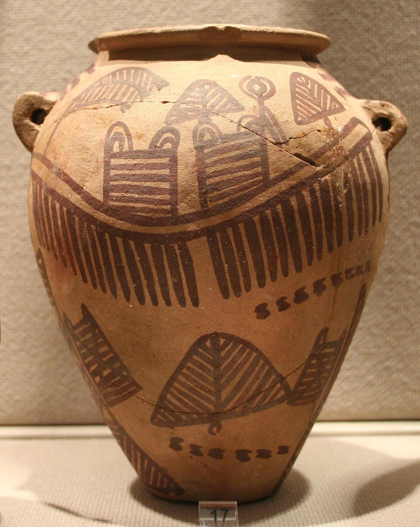 Vessels from Naqada II period (ca. 3200 BC)